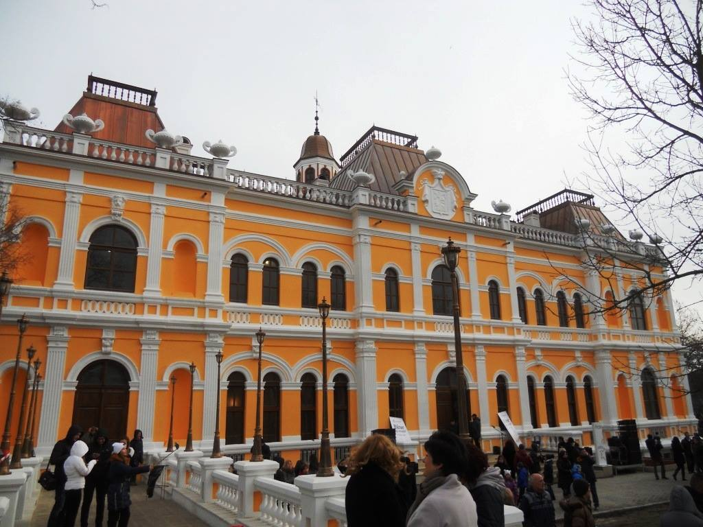 Doors Open Day at the mansion of Manuc Bei, located in Hîncești, Republic of Moldova